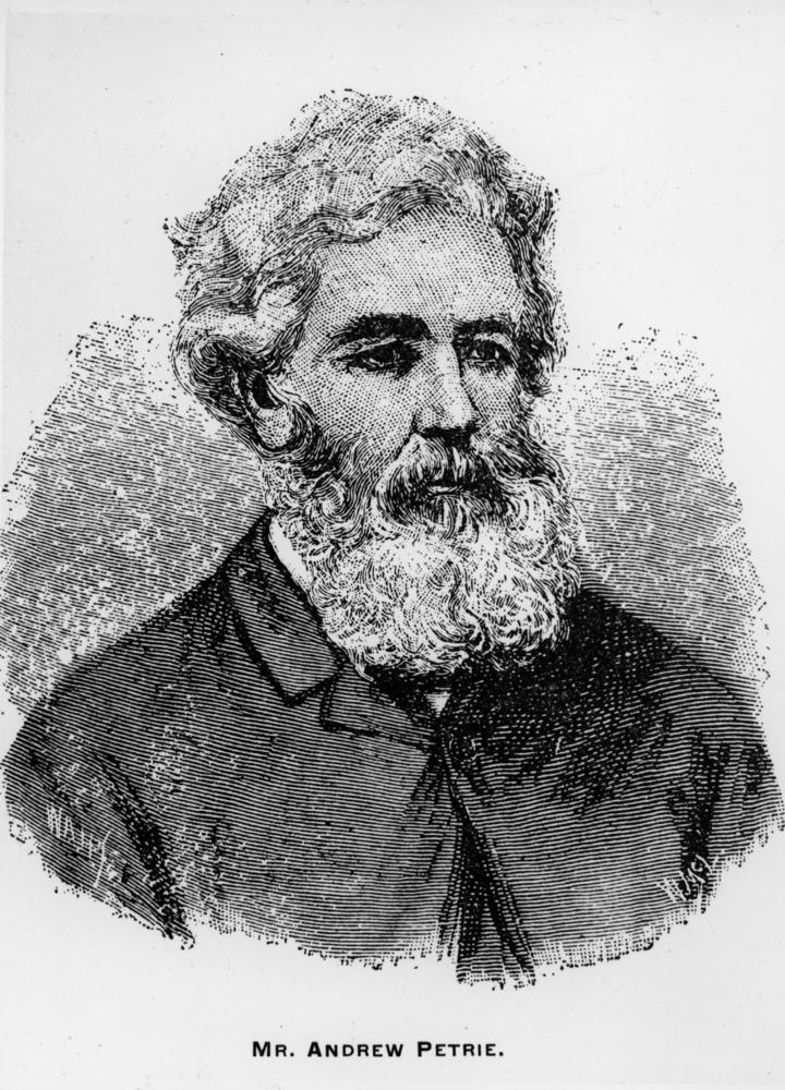 Andrew Petrie